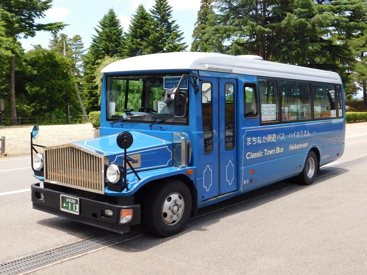 Aizu Bus Mitsubishi Fuso Rosa bonnet bus for AizuWakamatsu city roop bus "Haikara-san" Nikon Coolpix B500